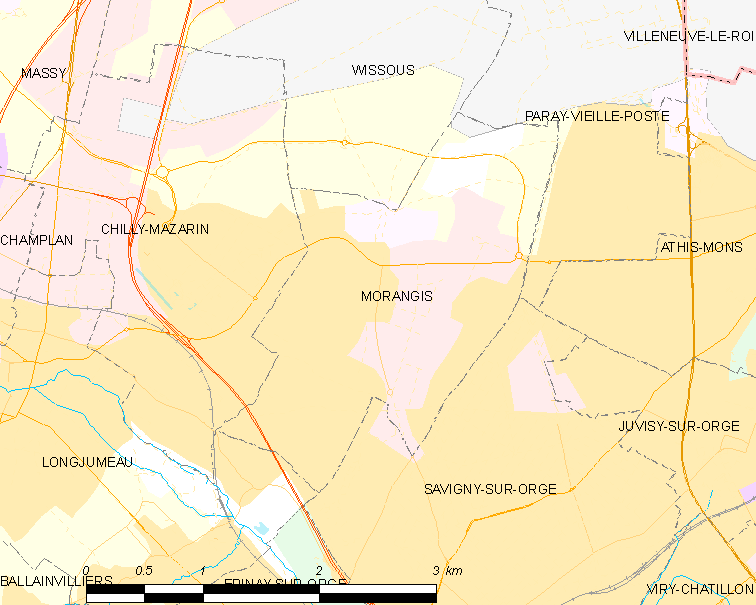 Map of French municipality Morangis